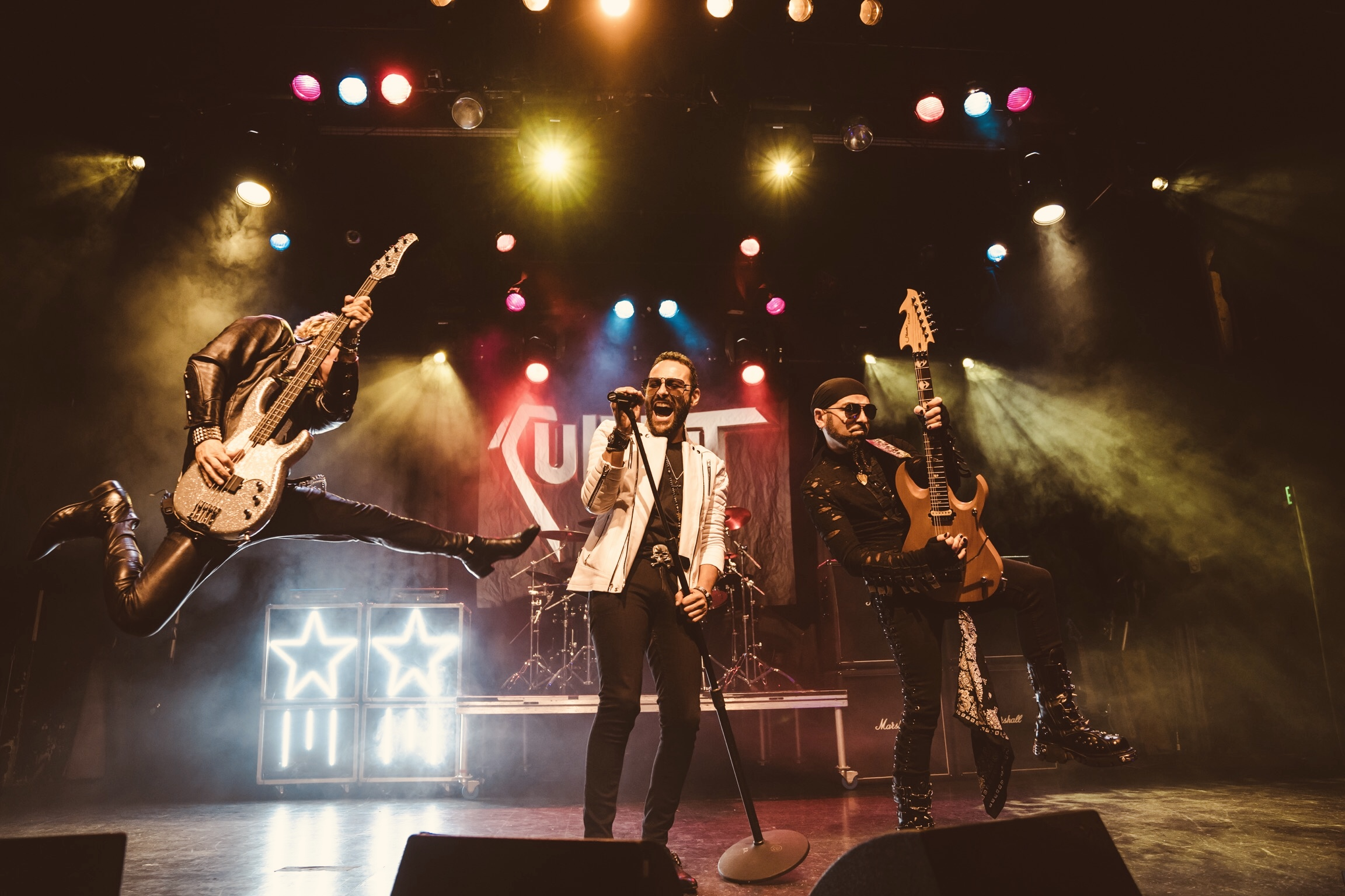 2018 Line Up